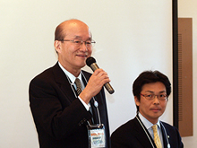 Shin'ya Izumi, Minister of State for Disaster Management, and Sakae Saitō, Mayor of Atami City, attended the Disaster Management Café in Atami at the Kiunkaku in Atami City, Shizuoka Prefecture on January 16, 2008.